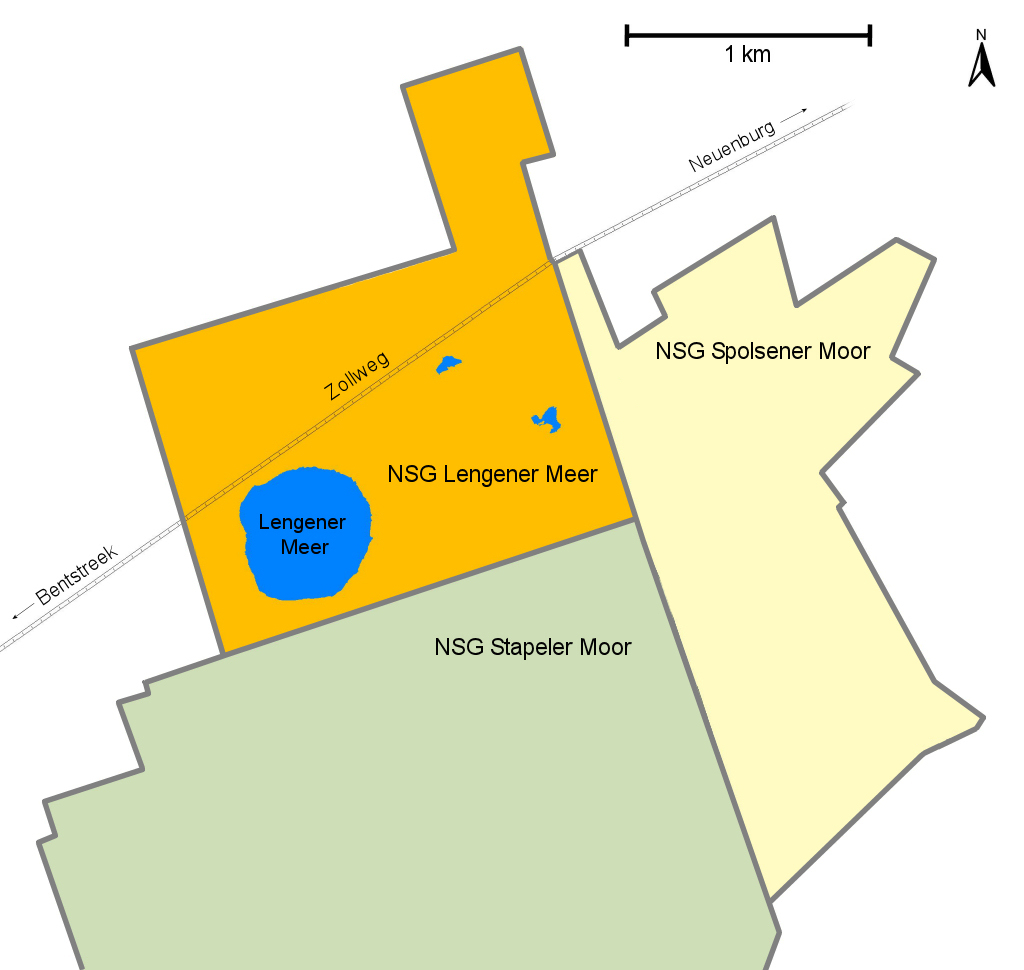 Nature Reserves Lengener Meer, Spolsener Moor, Stapeler Moor, in East Frisia, Germany